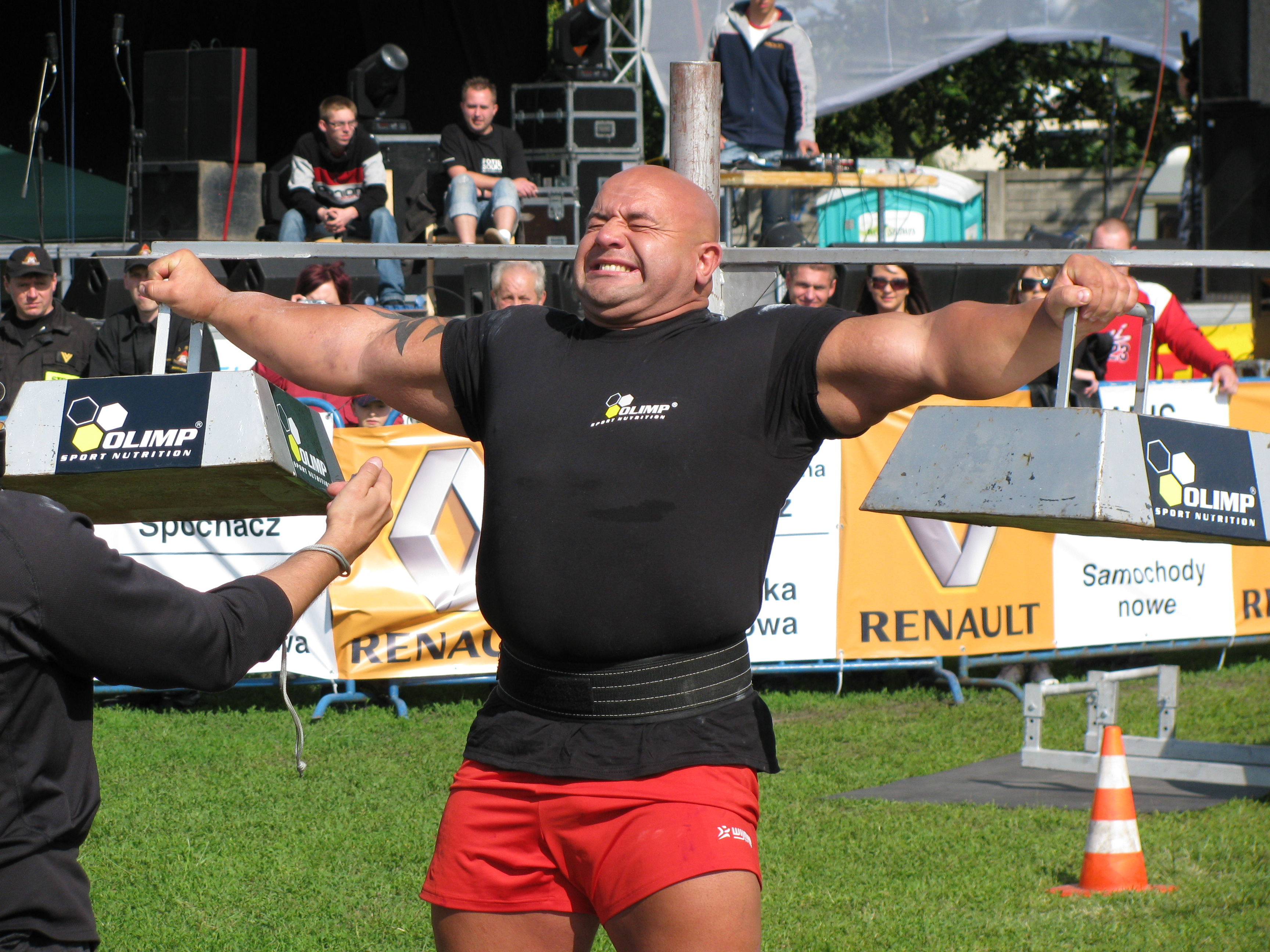 Ireneusz Kuras - a strength athlete from Poland.